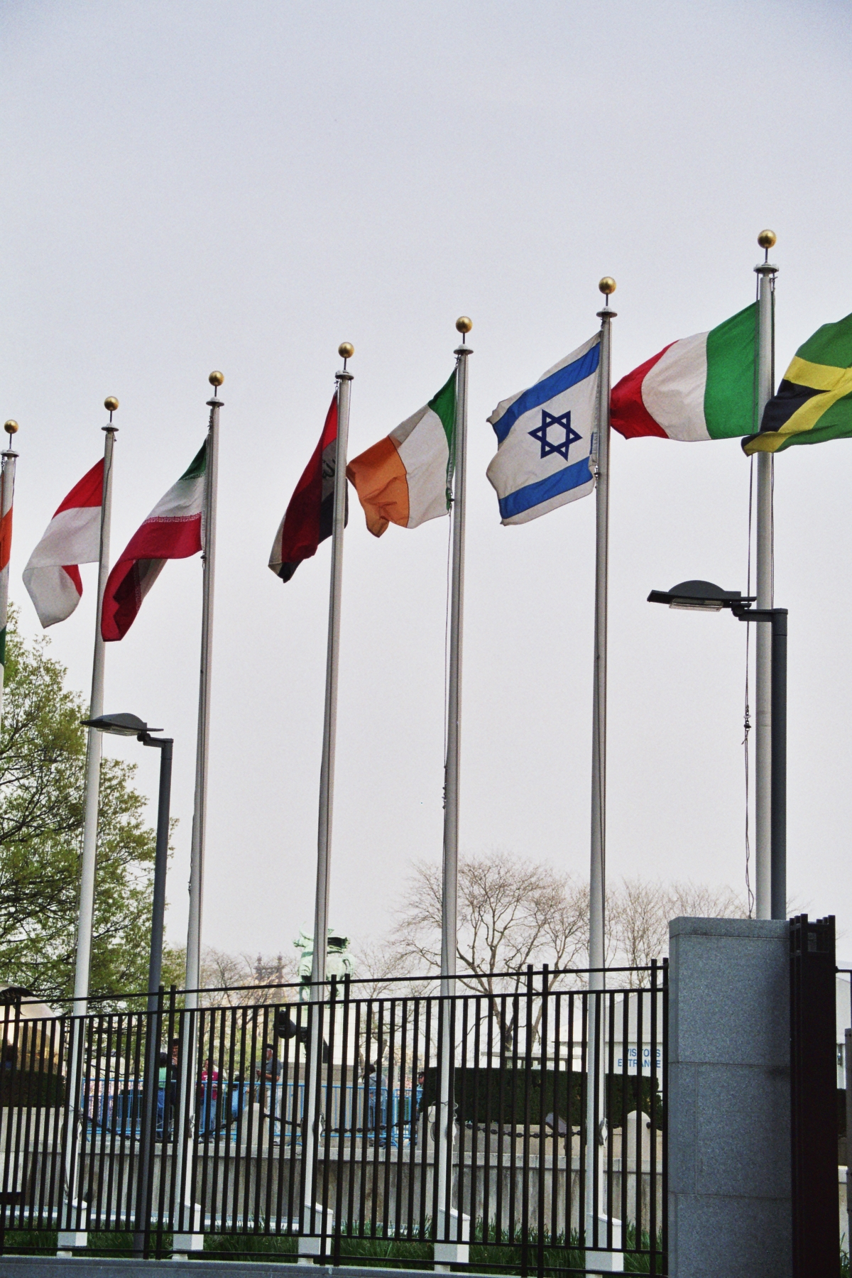 Flags at the United Nations headquarters